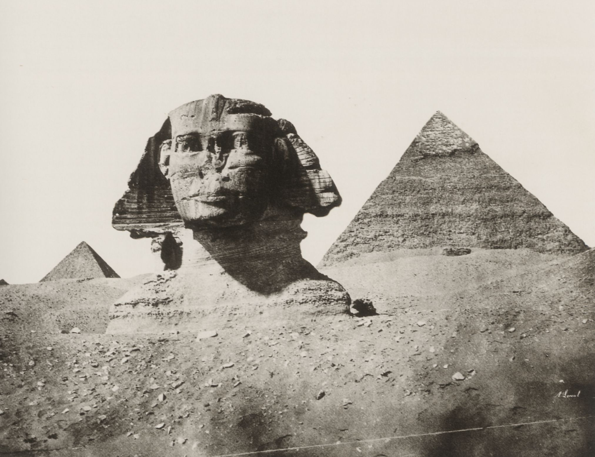 Sphinx